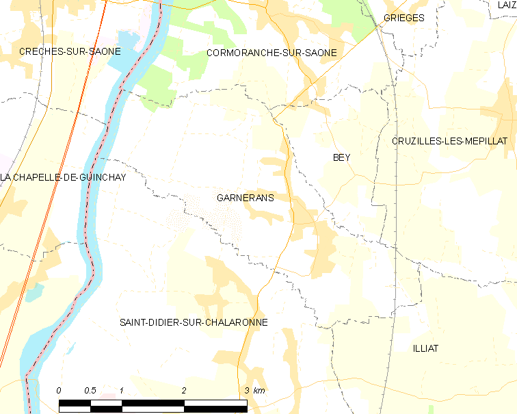 Map of French commune: Garnerans Map commune FR insee code 01167.png